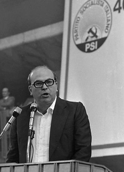 Bettino Craxi become secretary of PSI